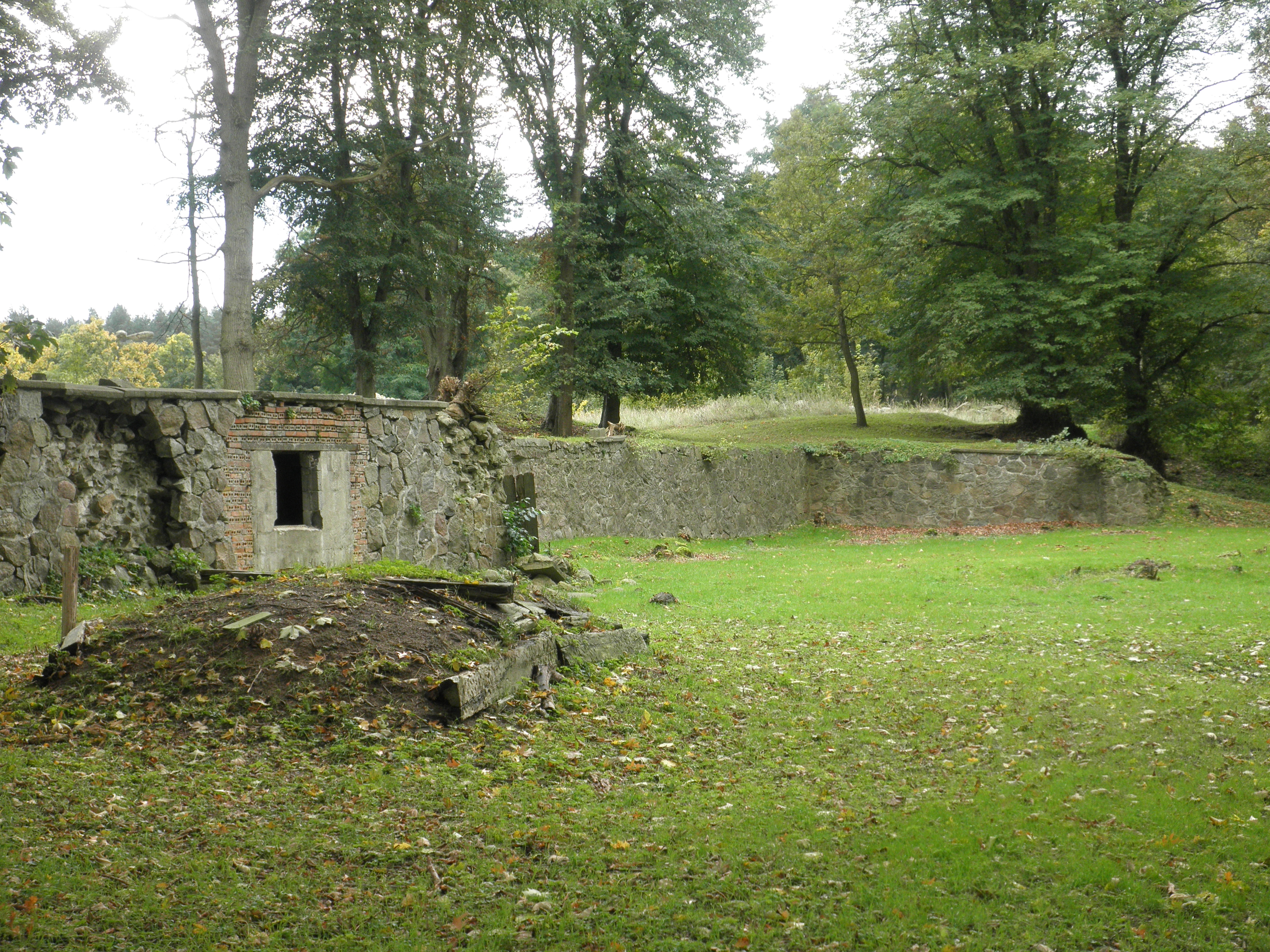 Foundations of the former castle in Glave in Mecklenburg-Vorpommern